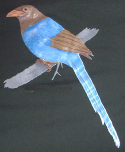 Sri Lanka Blue Magpie, my image